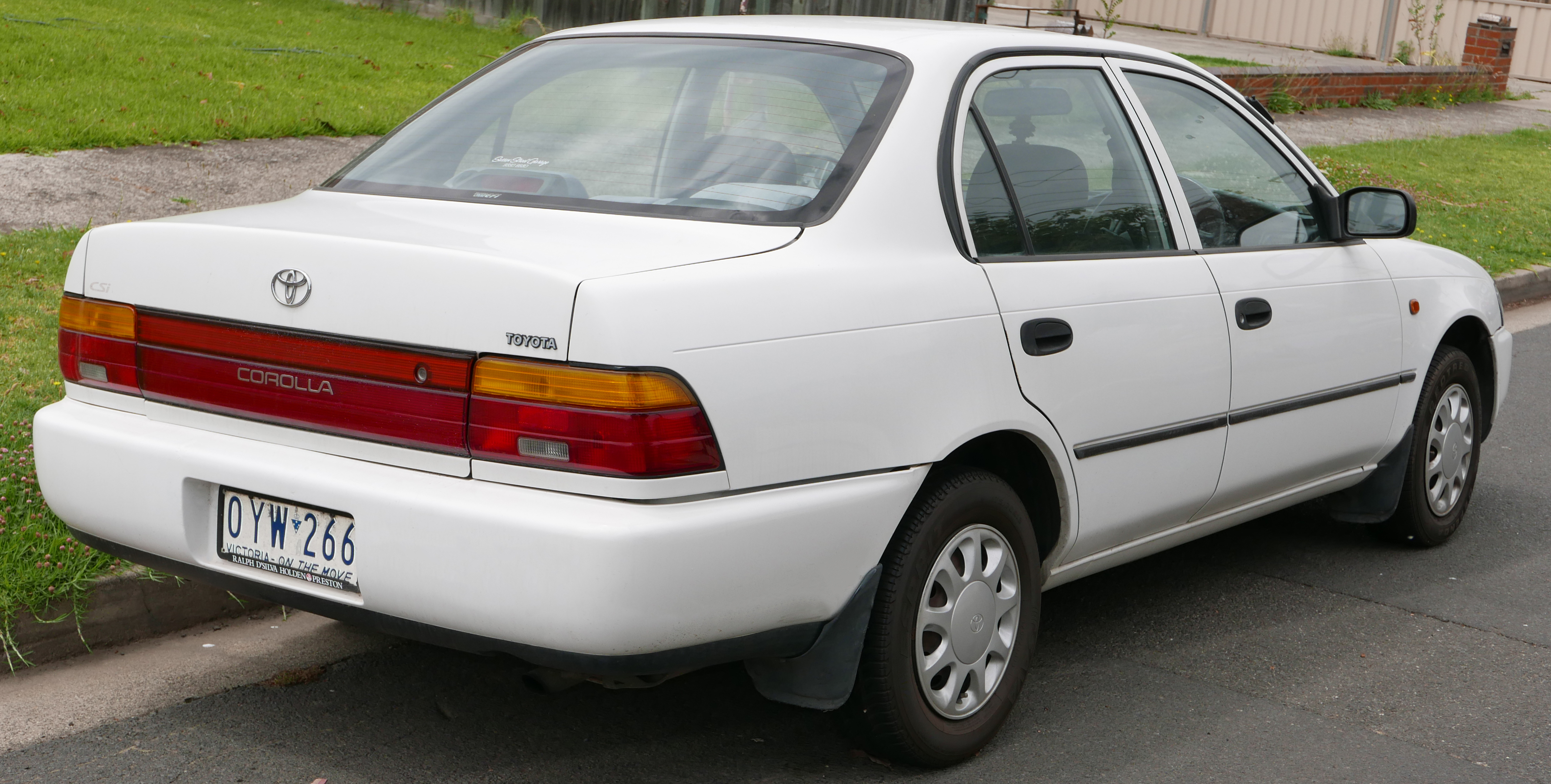 1998 Toyota Corolla (AE101R) CSi sedan. Photographed in Pascoe Vale, Victoria, Australia. Vehicle registration enquiry results Jurisdiction Victoria Registration OYW266 Chassis code 6T153AEA10D012629 Engine code 4A9258690 Compliance date 1998-06 Year of manufacture 1998